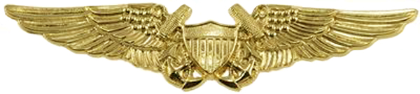 Naval Flight Officer insignia, worn by non-pilot air crew officers in the U.S. Navy. See U.S. Navy Uniform Regulations: 5201 - Breast Insignia.